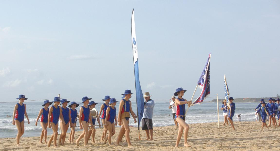 Stanwell Park nippers marching at the Illawarra Branch surf carnival in Thirroul.